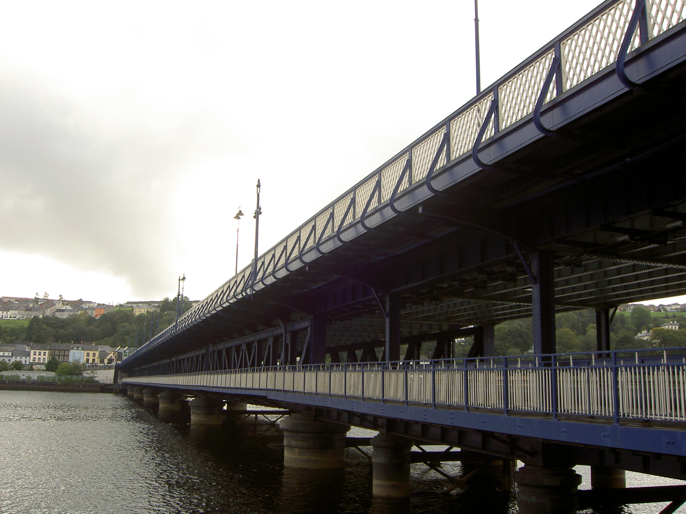 Photo of Craigavon bridge over Foyle river located in Derry.